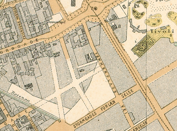 An area of Inner Vesterbro seen on a map detail from circa 1880.